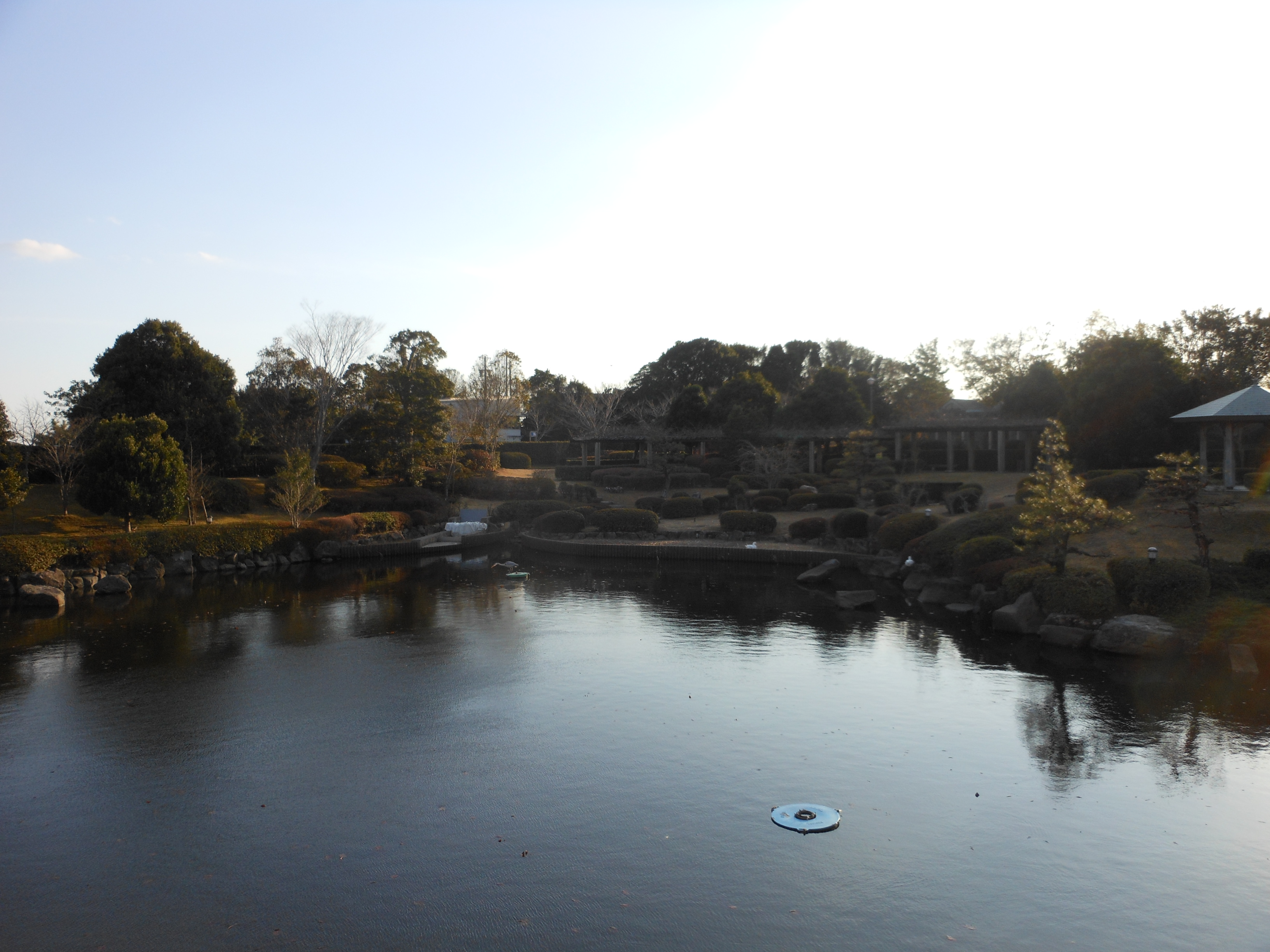 This is a library's garden in Shima,Mie,Japan.